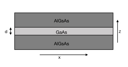 A figure I made of a heterostructure made from two layers AlGaAs surrounding a thin layer of GaAs.